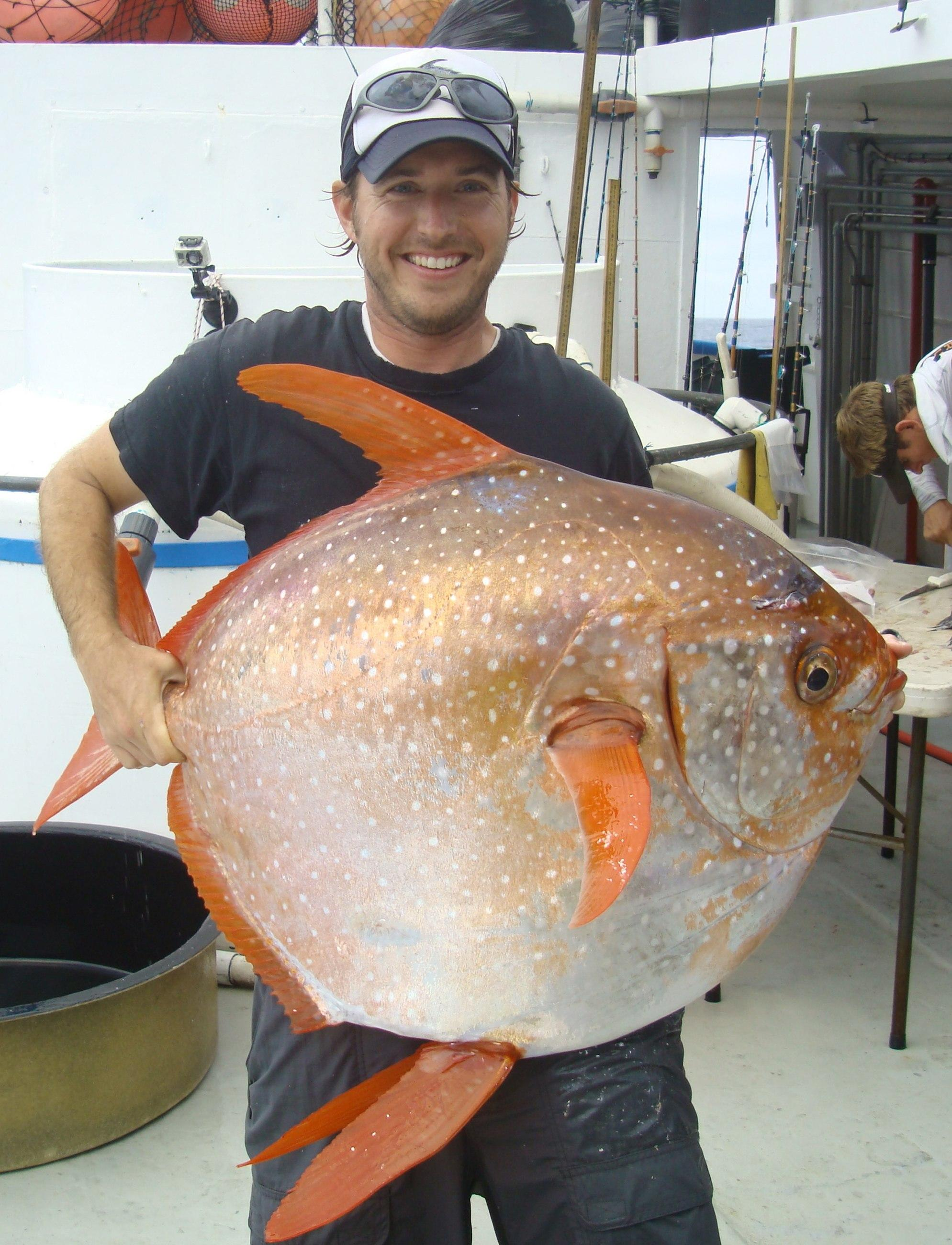 Lampris guttatus, NMFS biologist, Nick Wegner, holding a recently captured Opah fish.